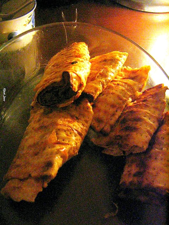 Matzot filled with mushroom paste.